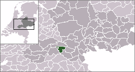 Locator map of Dutch municipalities in Gelderland (LocatieDruten.png)